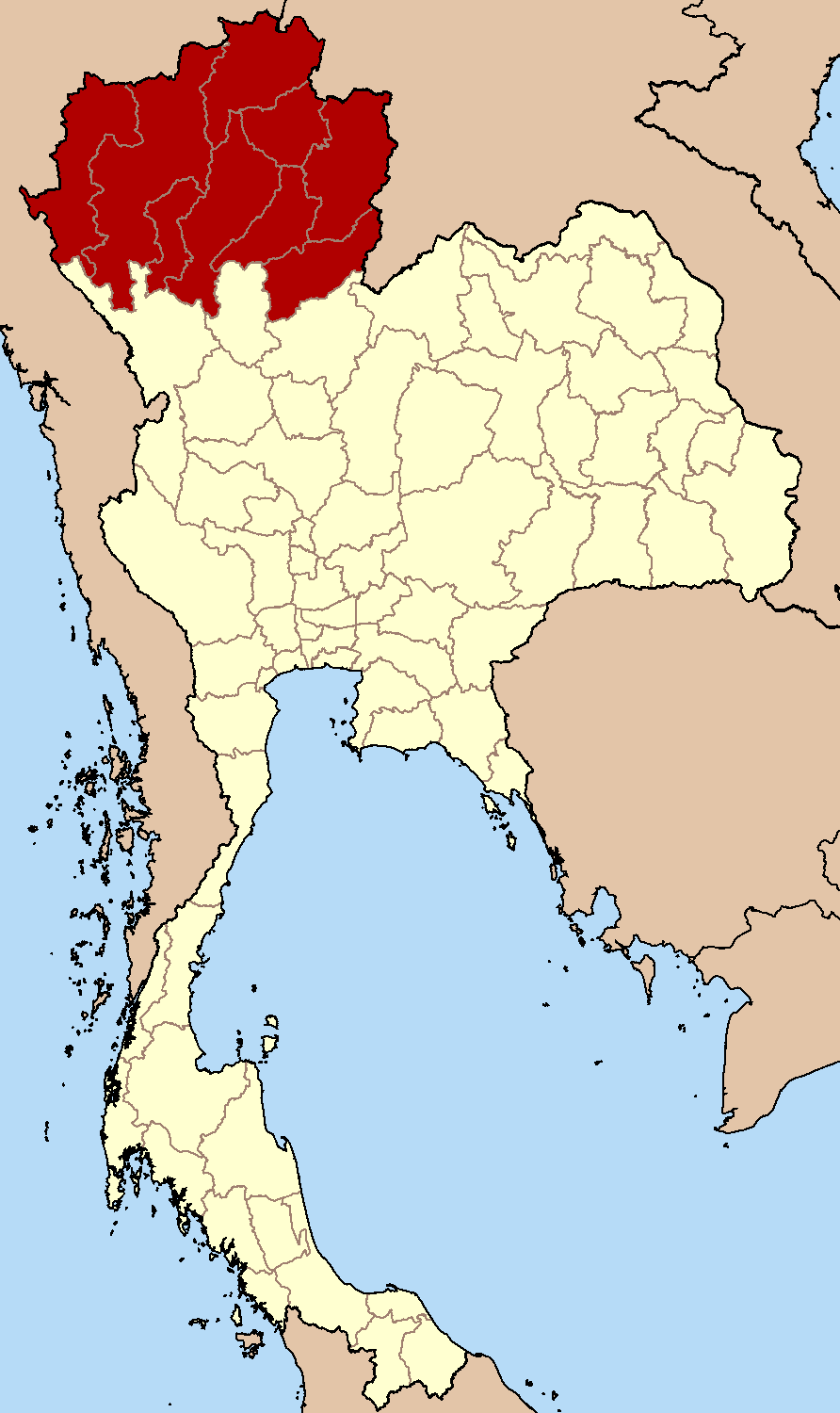 Map of Thailand highlighting the provinces of Northern Thailand, based on the six-region system